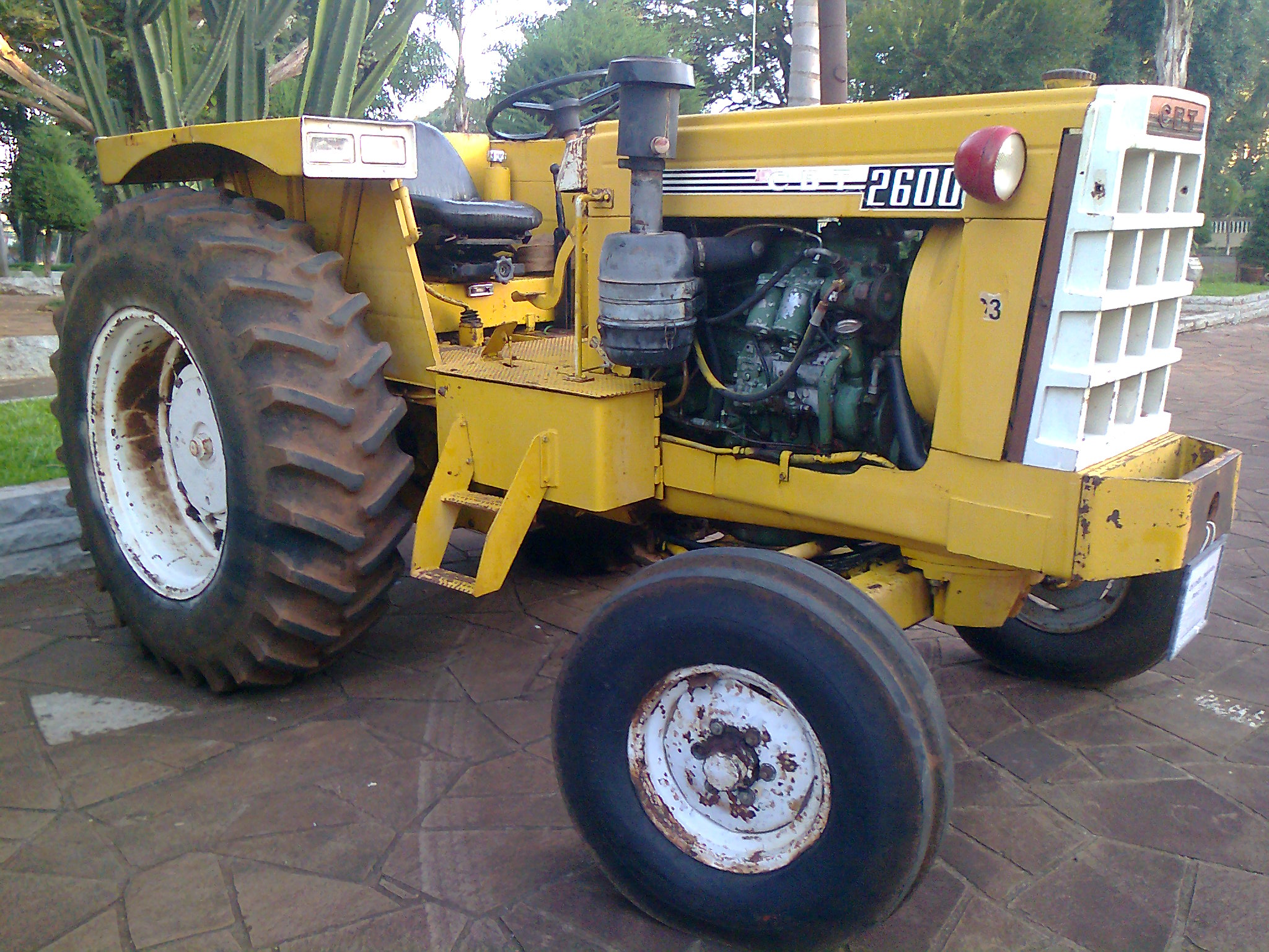 CBT 2600 tractor (1982) present in Memórias do Campo exposicíon.